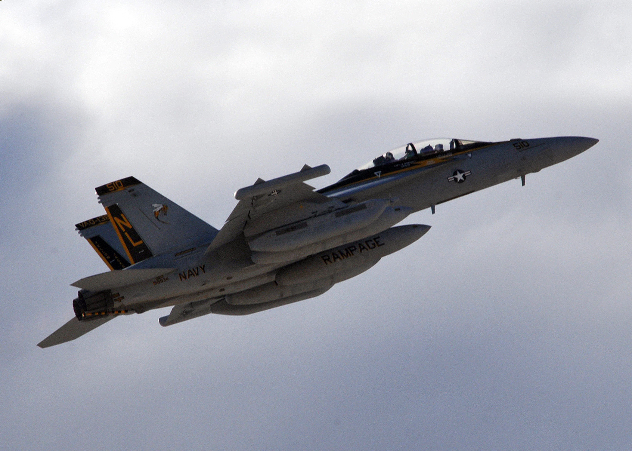 SOUDA BAY, Greece (Dec. 20, 2011) A Boeing EA-18G Growler aircraft takes off following a transient stop on Crete. The aircraft and four others assigned to Electronic Attack Squadron (VAQ) 138 are headed home to Whidbey Island, Washington, following completion of a six-month deployment to Iraq supporting Operation New Dawn. (U.S. Navy photo by Paul Farley/Released)